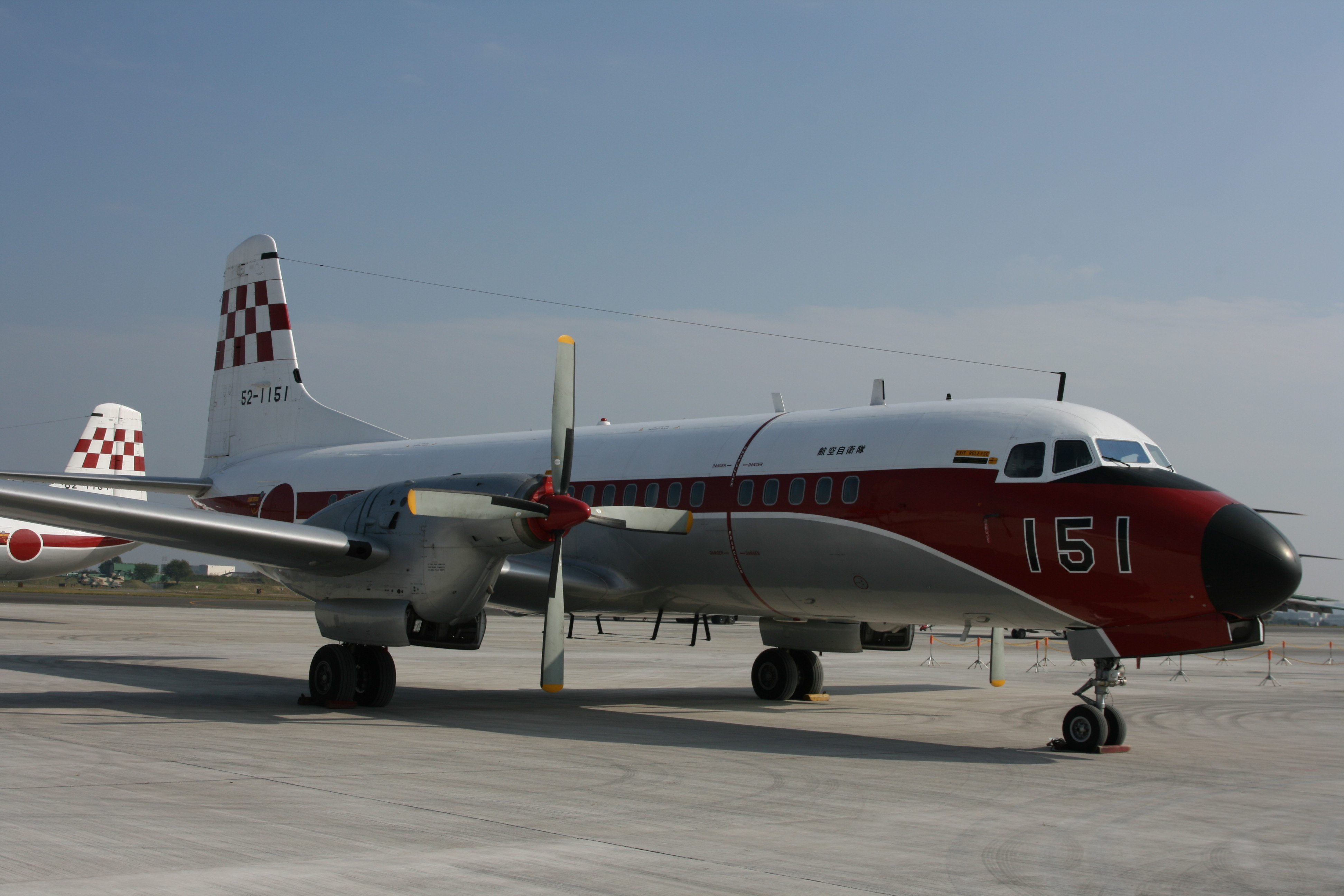 JASDF YS-11FC(52-1151)